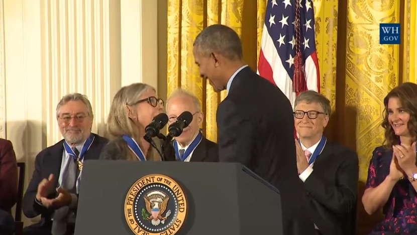 Margaret Hamilton receives the Presidential Medal of Freedom from President Barack Obama in 2016